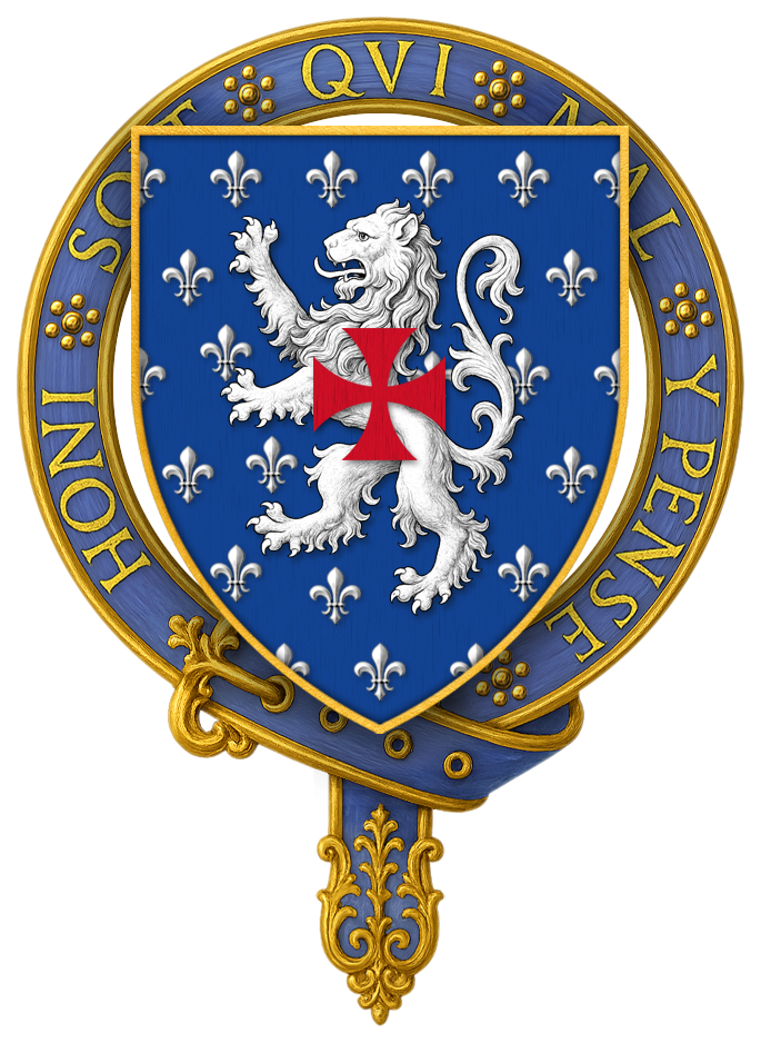 Coat of Arms of Sir Otho Holland, KG “ Holand... azure, florettee and a lyon rampant gardant argent…by Sir Otes, K.G. (a founder), and Sir Thomas, K.G., at the siege of Calais 1345-8, the former then differenced with a cross patee gules on the lyon… ” FOSTER, Joseph, Some Feudal Coats of Arms from Heraldic Rolls 1298-1418, London: James Parker & Co., 1902. See also: ST. JOHN HOPE, W. H., The Stall Plates of the Knights of the Order of the Garter 1348 – 1485: A Series of Ninety Full-Sized Coloured Facsimiles with Descriptive Notes and Historical Introductions, Westminster: Archibald Constable and Company LTD, 1901.